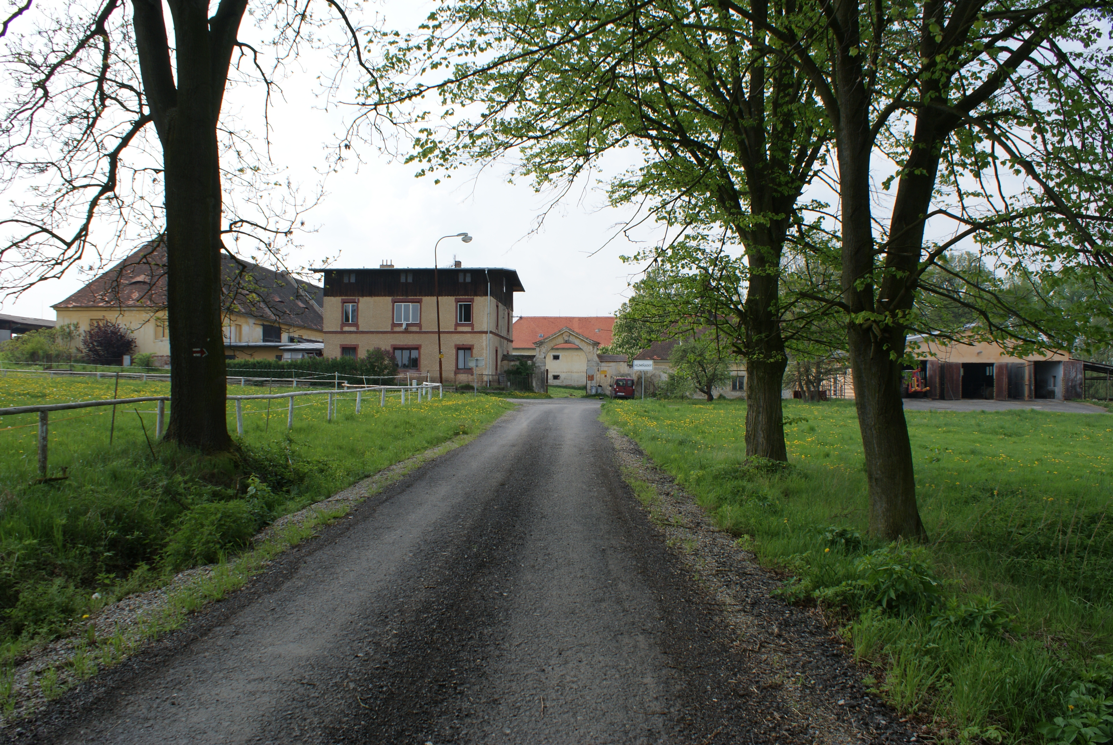 Humňany, part of the Ražice village in Písek district, Czech Republic. A farm house.